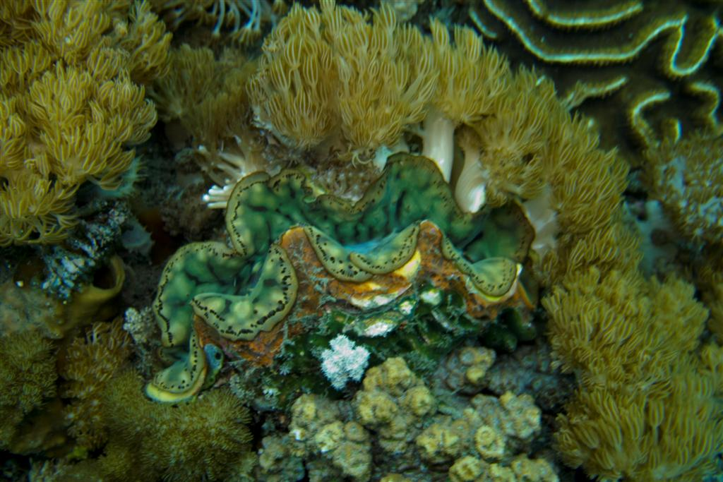 Giant Clam